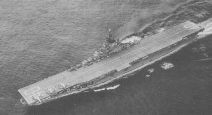 The U.S. Navy anti-submarine aircraft carrier USS Tarawa (CVS-40) in the South Atlantic during "Operation Argus" in August/September 1958. "Operation Argus" was a series of nuclear weapons tests and missile tests secretly conducted during August and September of 1958 over the South Atlantic Ocean by the United States's Defense Nuclear Agency, in conjunction with the Explorer 4 space mission. The naval task force was Task Force 88, its staff, which was in overall command, being aboard the USS Tarawa. The commanding officer of the Tarawa served as commader of Task Group 88.1. The USS Tarawa carried an U.S. Air Force MSQ-1A radar and communications vans for missile tracking and gathering scientific data, visible in front of the twin 12,7 cm gun turrets on the flight deck. The 19 Grumman S2F-2 Tracker aircraft of anti-submarine squadron VS-32 Norsemen flew search and security missions as well as scientific measurement, photographic, and observer missions during the missile and weapons tests.